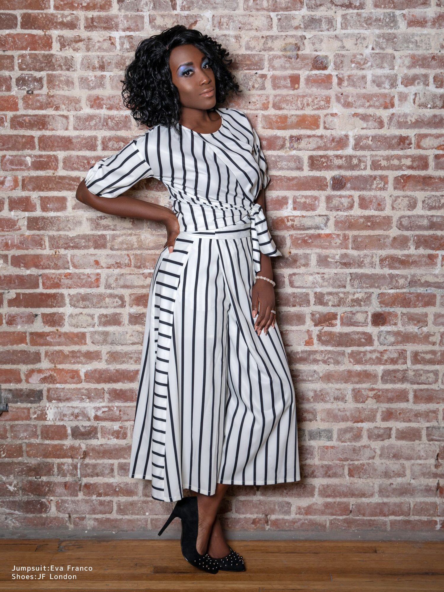 Malynda Hale in Avante Magazine